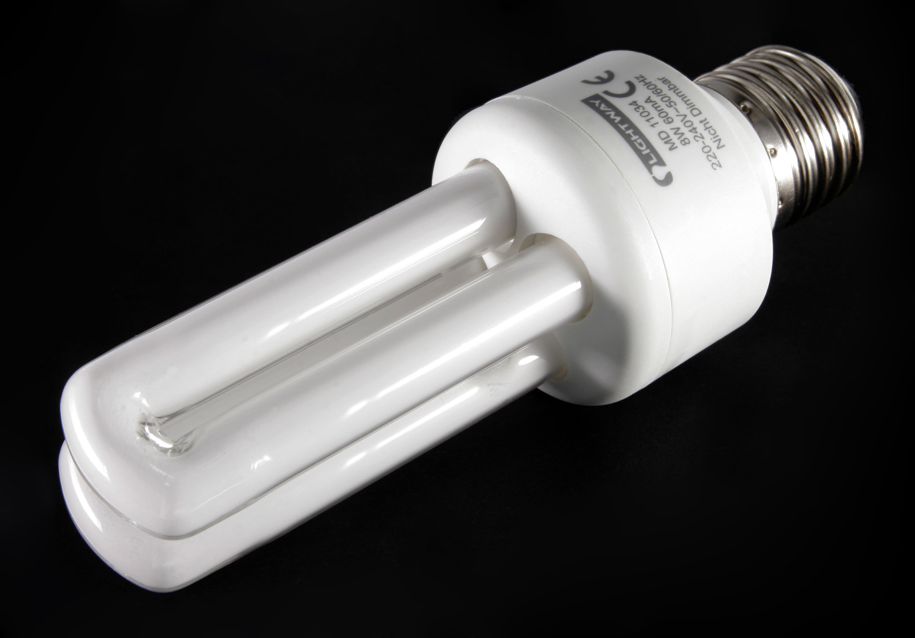 Modern fluorescent light bulb with E27 thread for 220..240 Volts AC with 8 Watts power